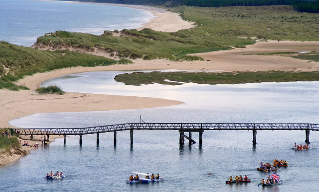 The 2009 Raft Race at Lossiemouth The raft that looks like a plane is the R.A.F. raft, and United Kingdom is represented this year. Most of the pubs enter a raft and much hard work goes into making them by those who paddle them, for Charity.